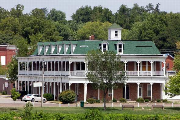 Photo of the historic Hotel Manning in Keosauqua, Iowa. This image is seen from a distance, as would a weary traveler in the late 1800s whn the hotel was built.